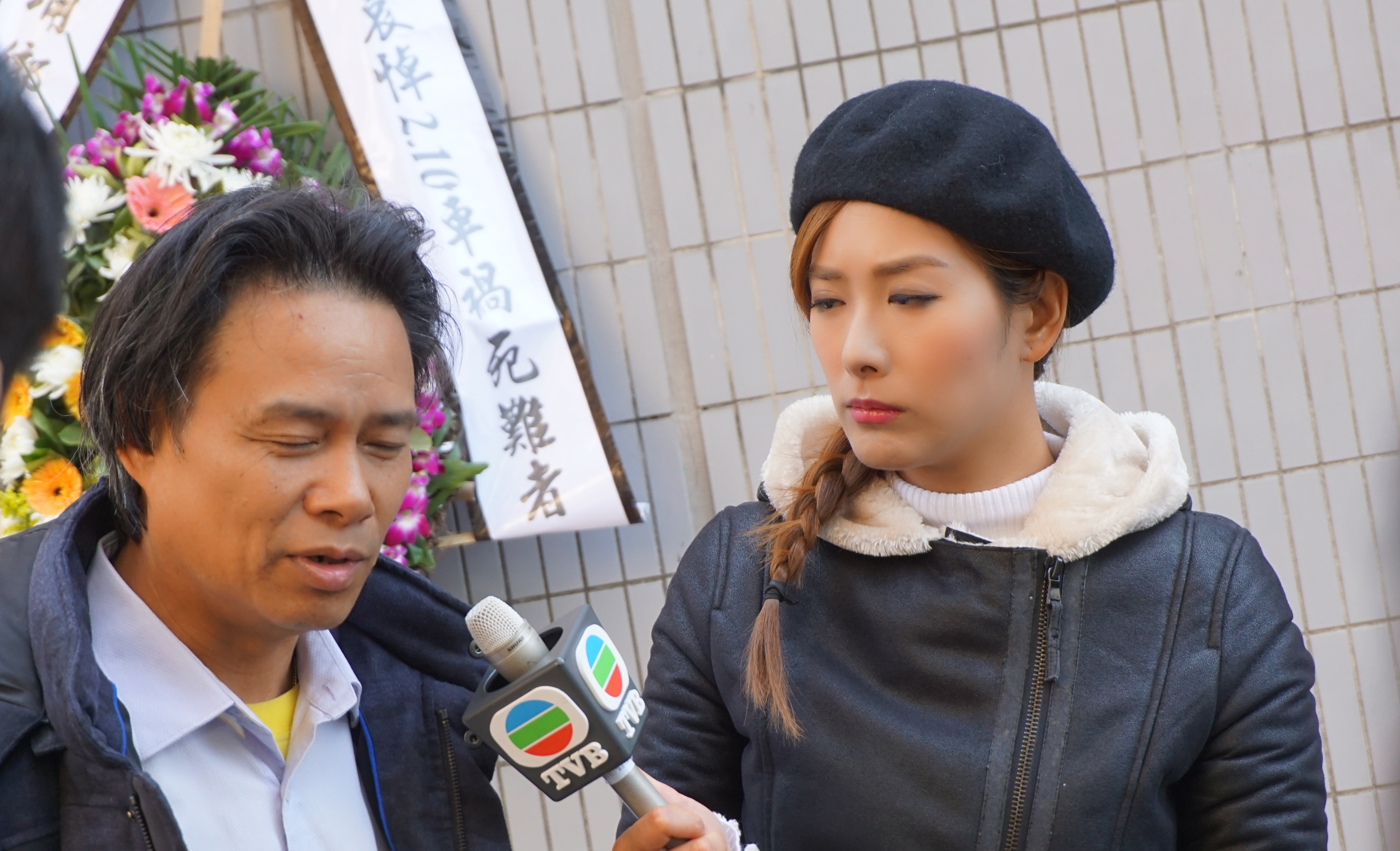 Double-decker Bus Tilted Incident in Tai Po Road, Hong Kong.